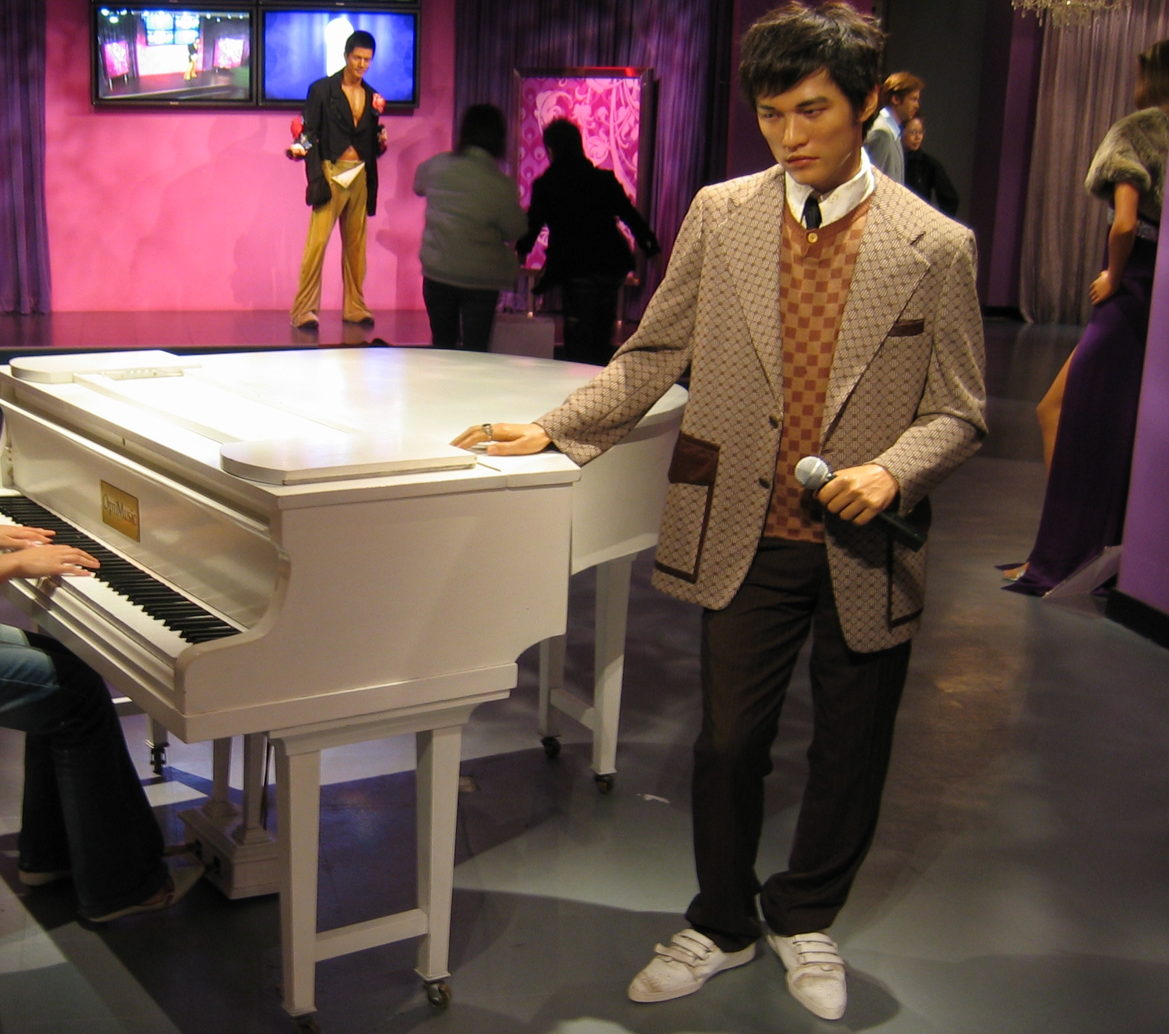 Jay Chou Taiwanese singer's wax figure in Hongkong's Madame Tussauds museum [1]